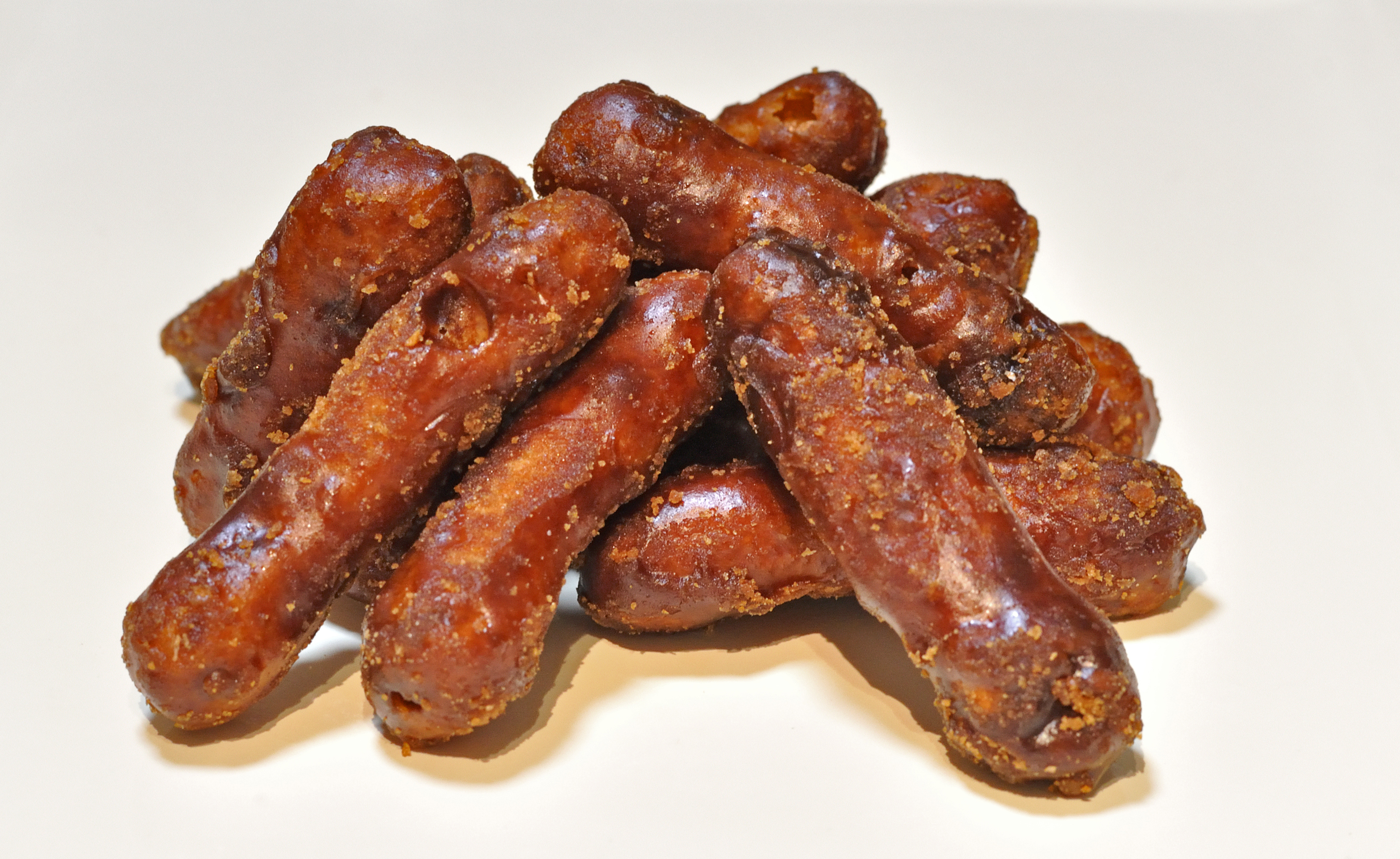 Typical sample of Karintō